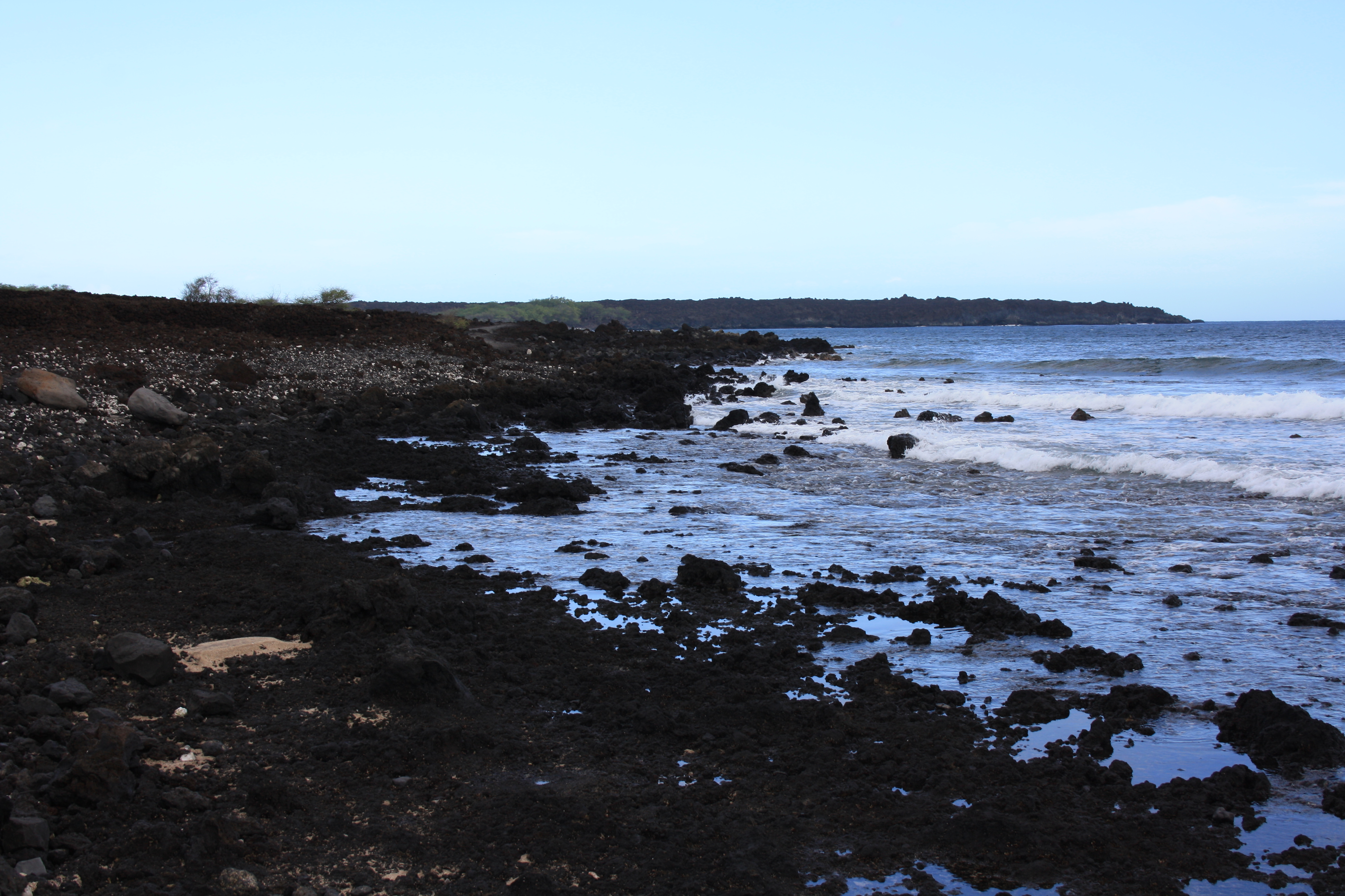 A view looking south from La Perouse Bay, Maui.